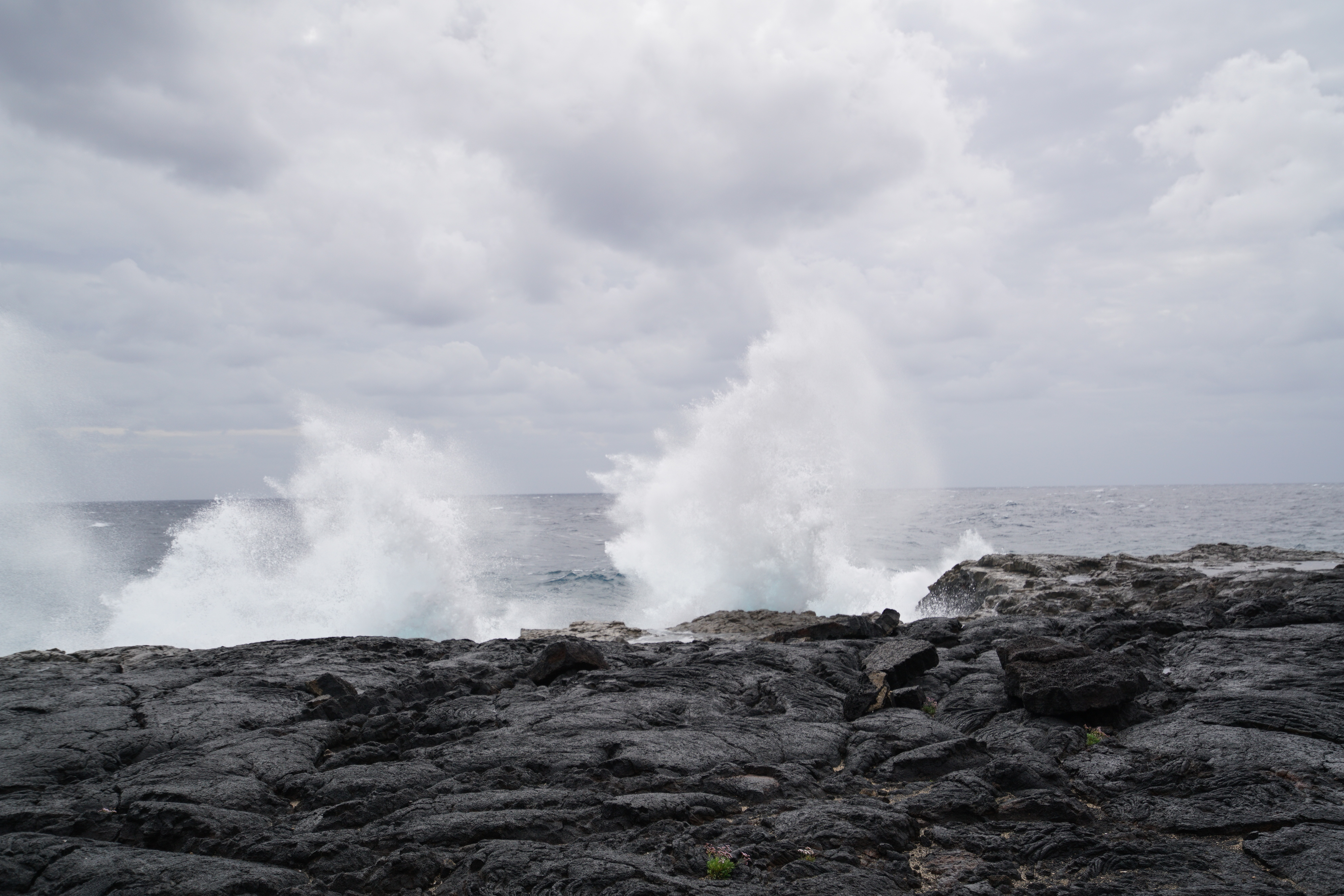 Punta de los Saltos El Hierro